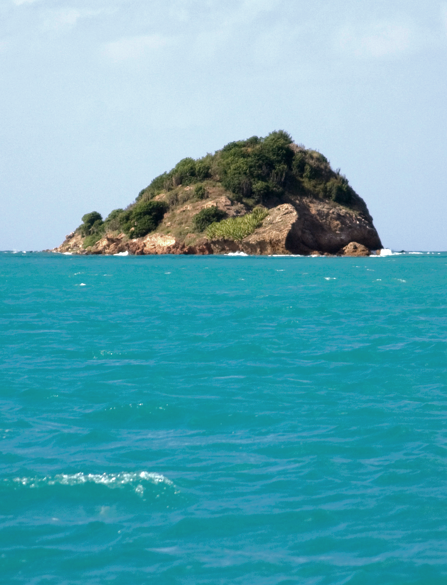 Small island off the coast of Antigua